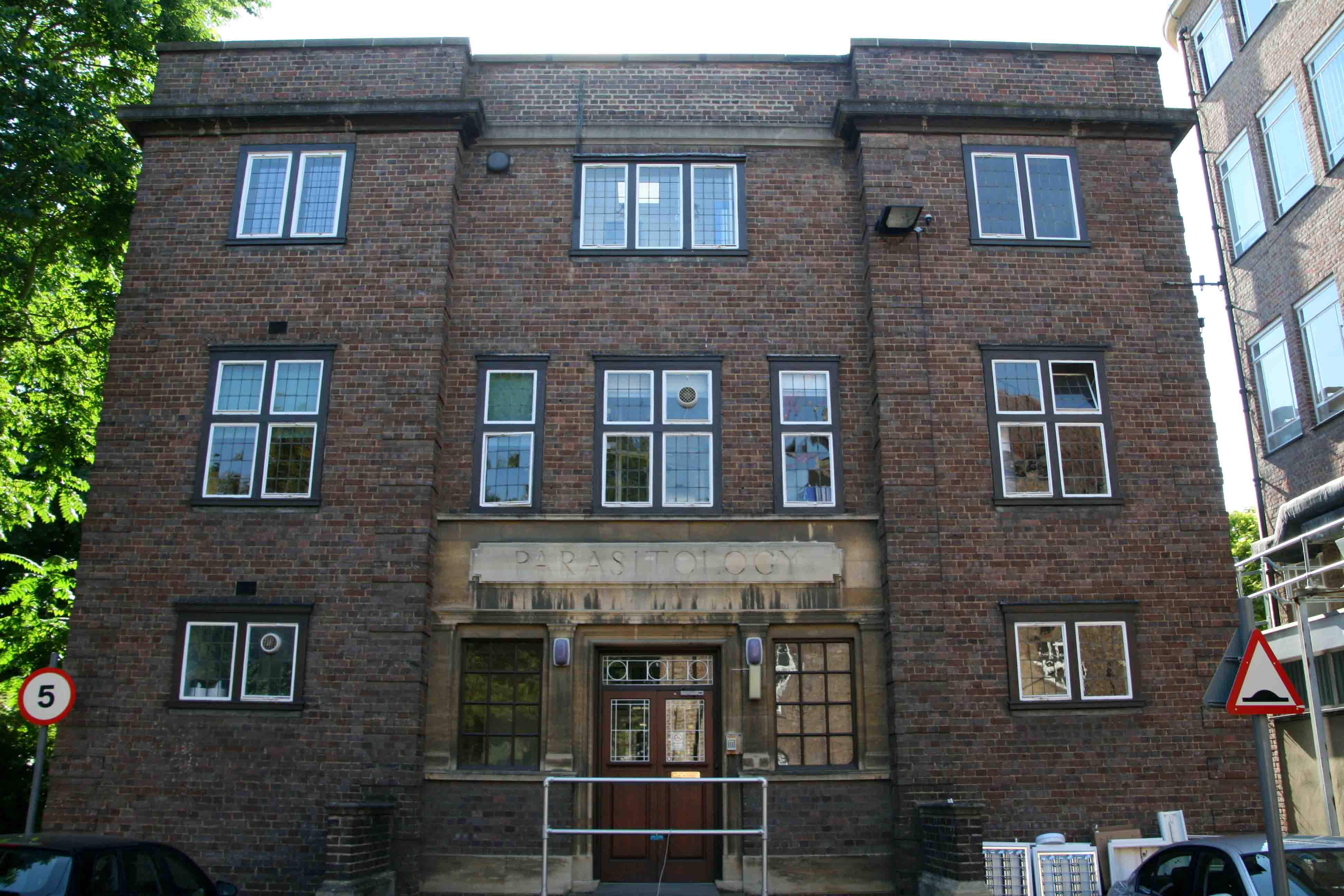 Front view of the Molteno Institute for Reseach in Parasitology, now a part of the Department of Pathology, at the University of Cambridge